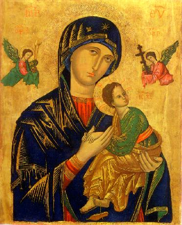 Our Mother of Perpetual Help, a 15th Century Marian Byzantine Icon